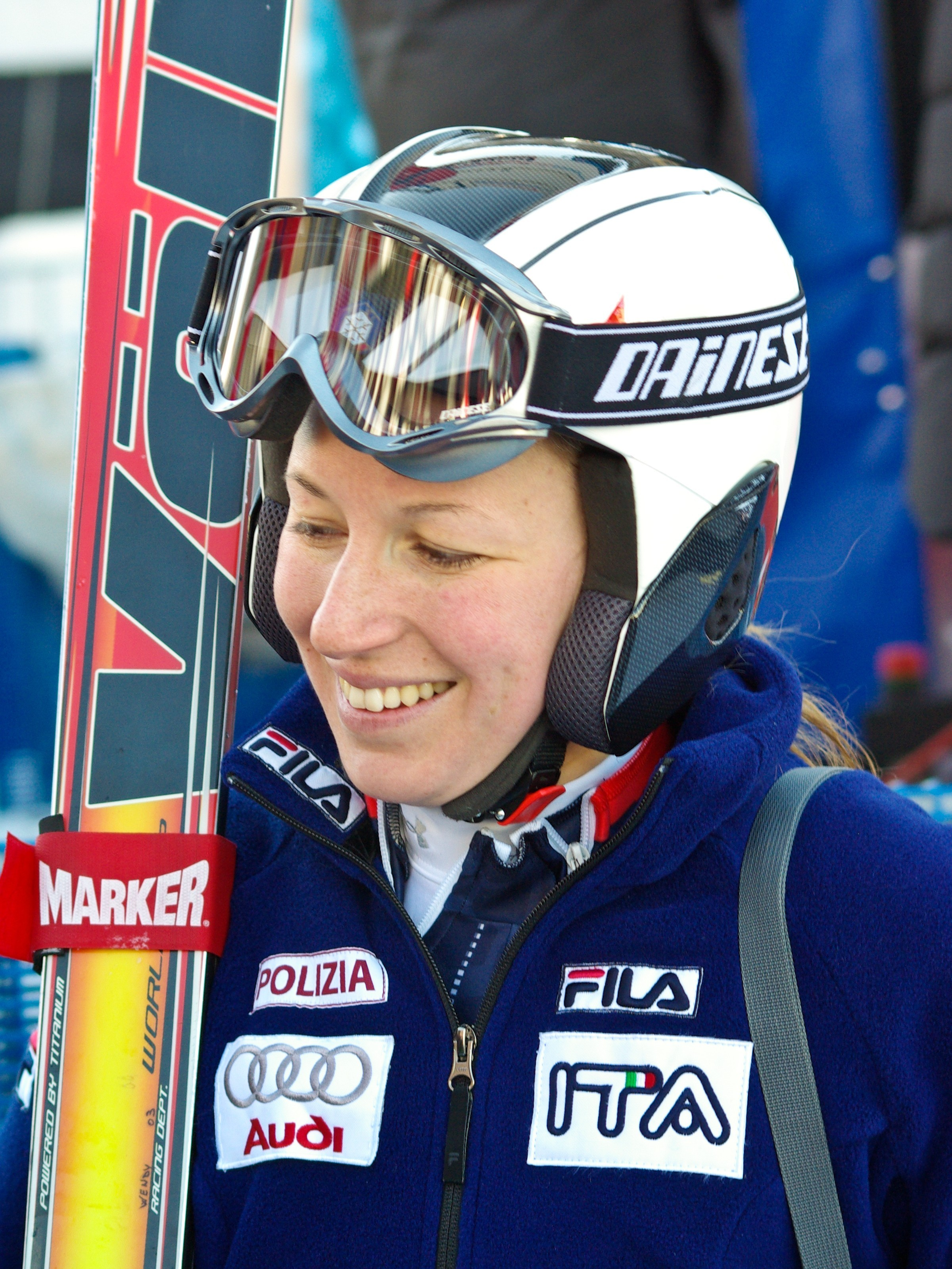 Italian alpine skier Wendy Siorpaes after the second downhill training in Altenmarkt-Zauchensee (Austria) on 16 January 2009.